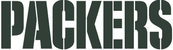 Green Bay Packers green wordmark used since 1959.